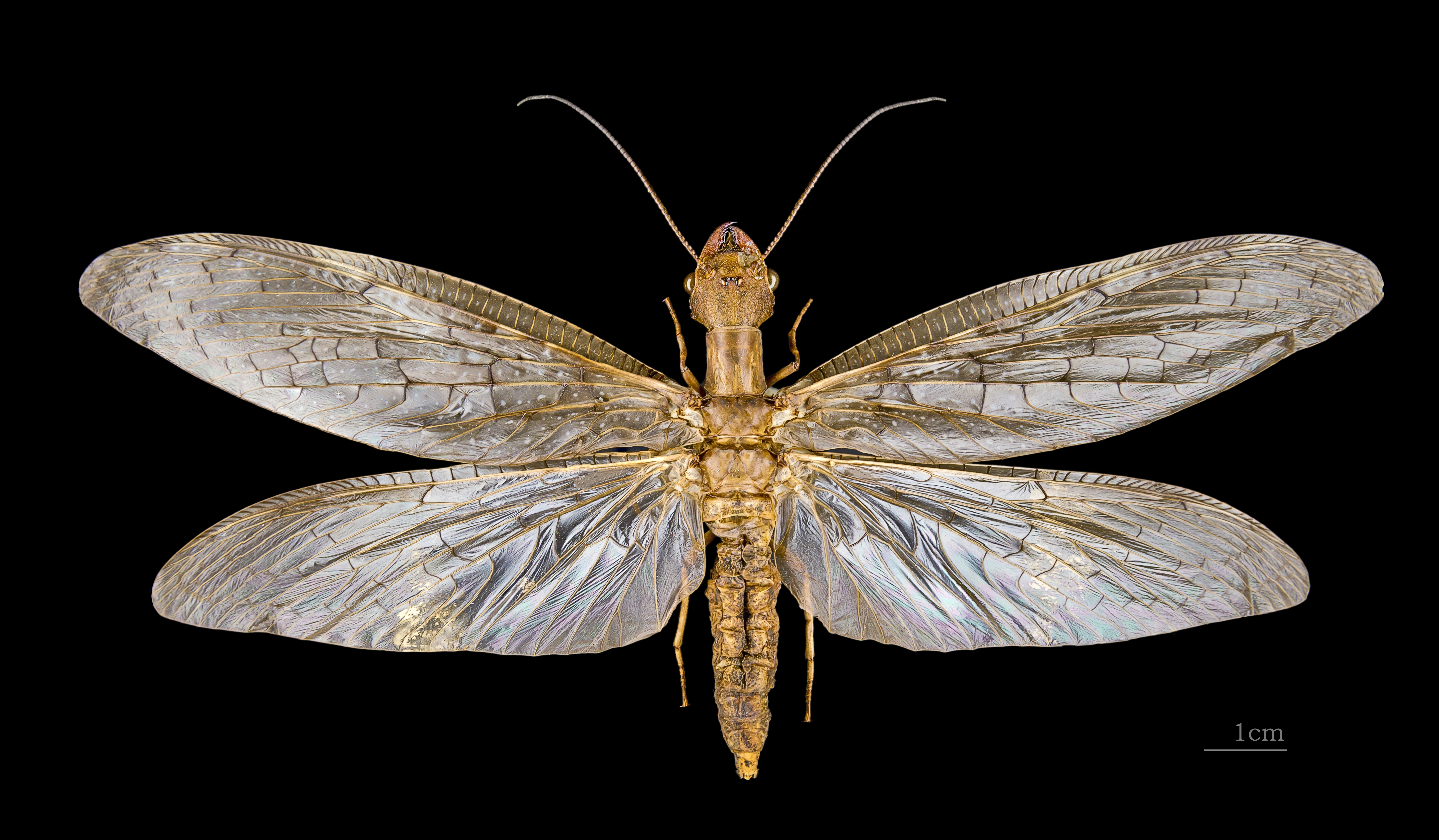 Eastern Dobsonfly - Dorsal side